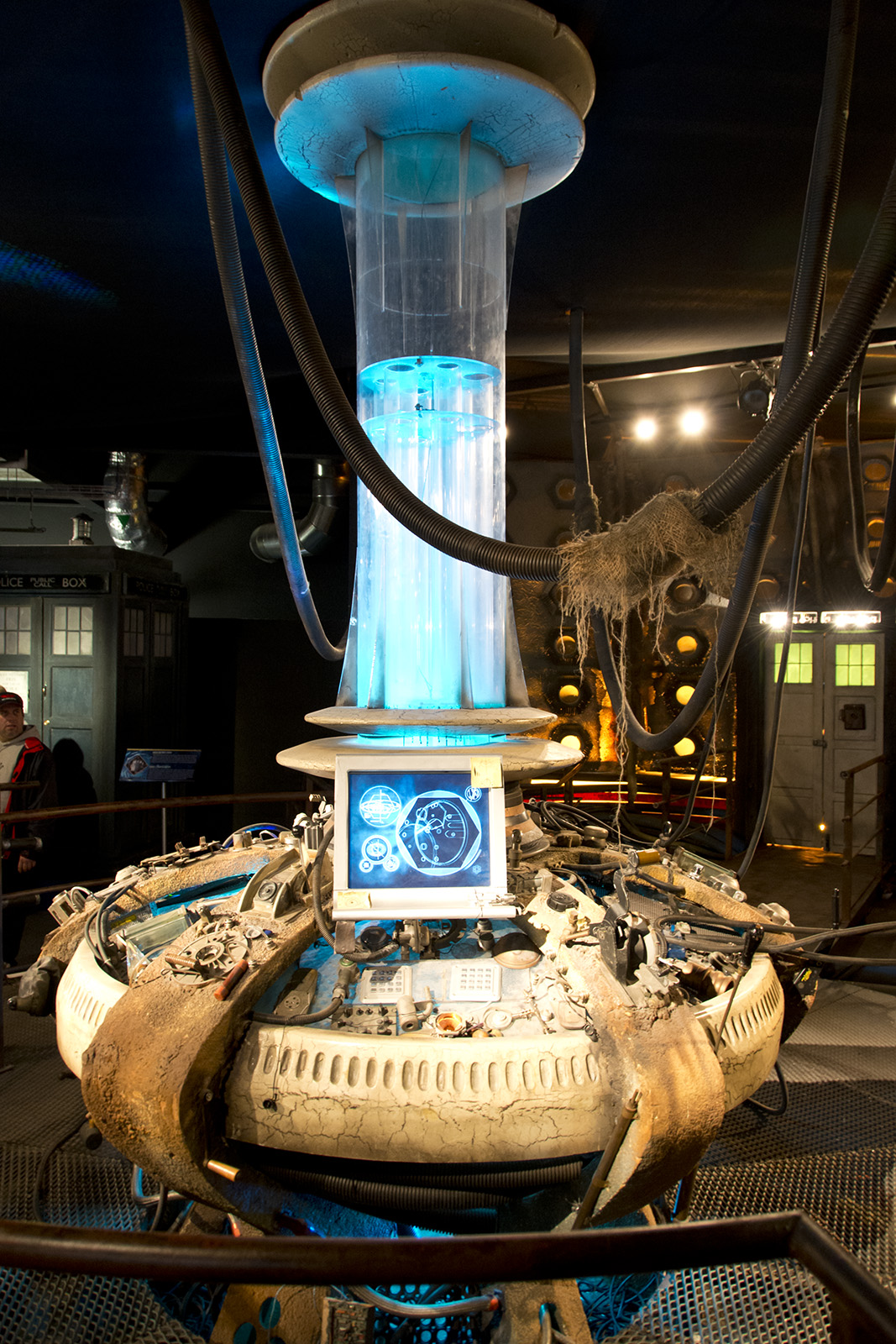 Doctor Who Experience